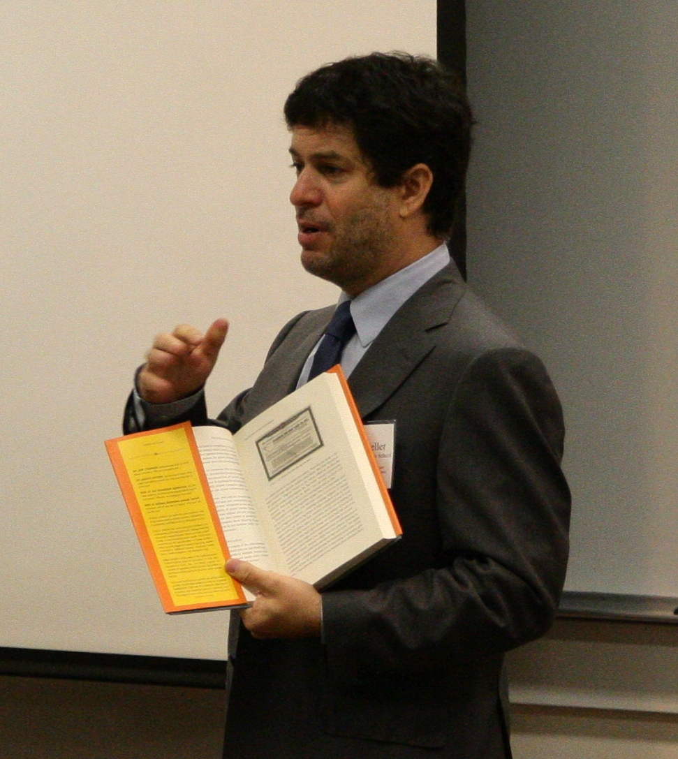 Columbia University law professor Michael Heller speaks at a conference about his book, The Gridlock Economy, at George Mason University.